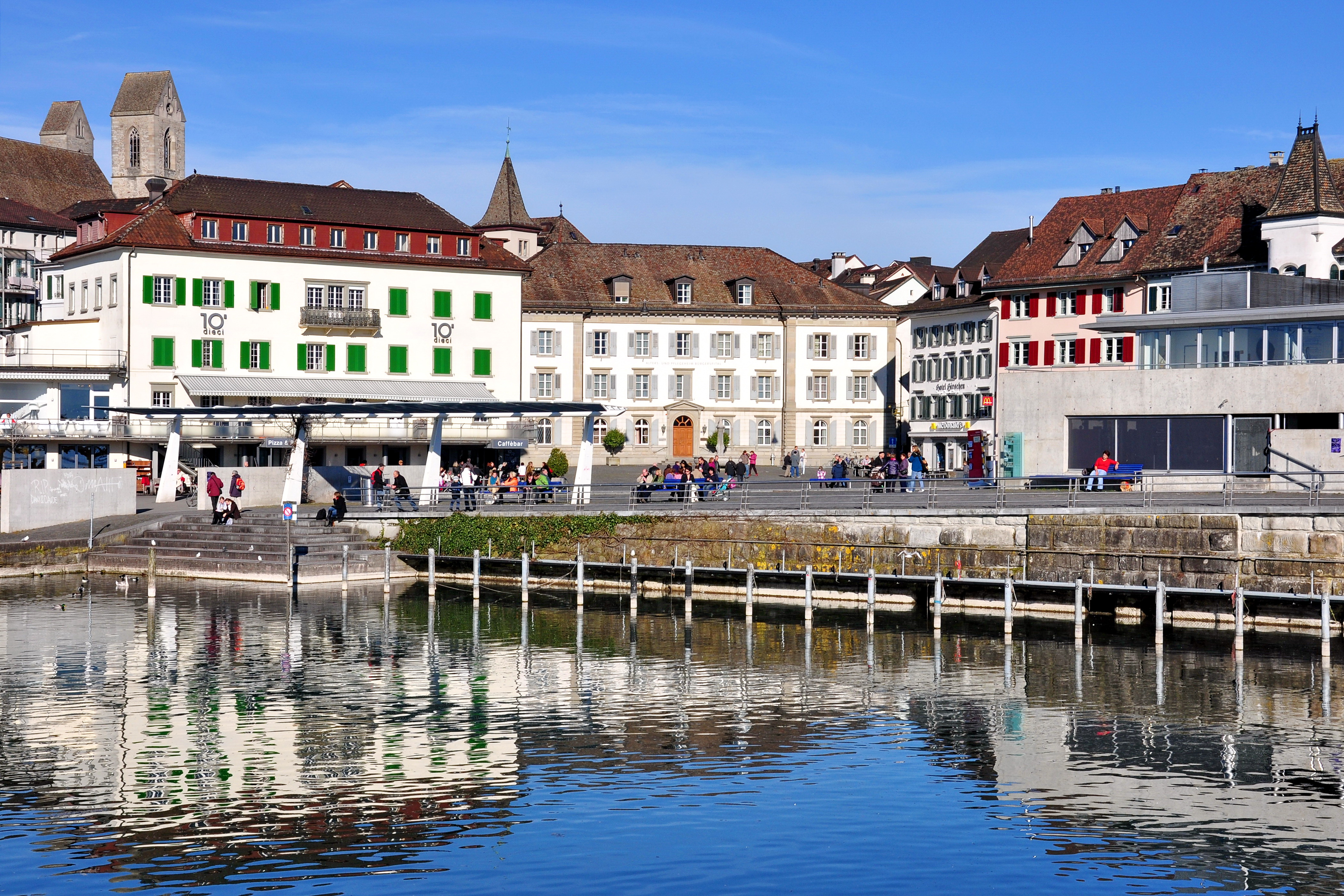 Rapperswil (Switzerland) Altstadt and Fischmarktplatz, as seen from Seedamm, Stadtpfarrkirche (St. John's Church) in the background.